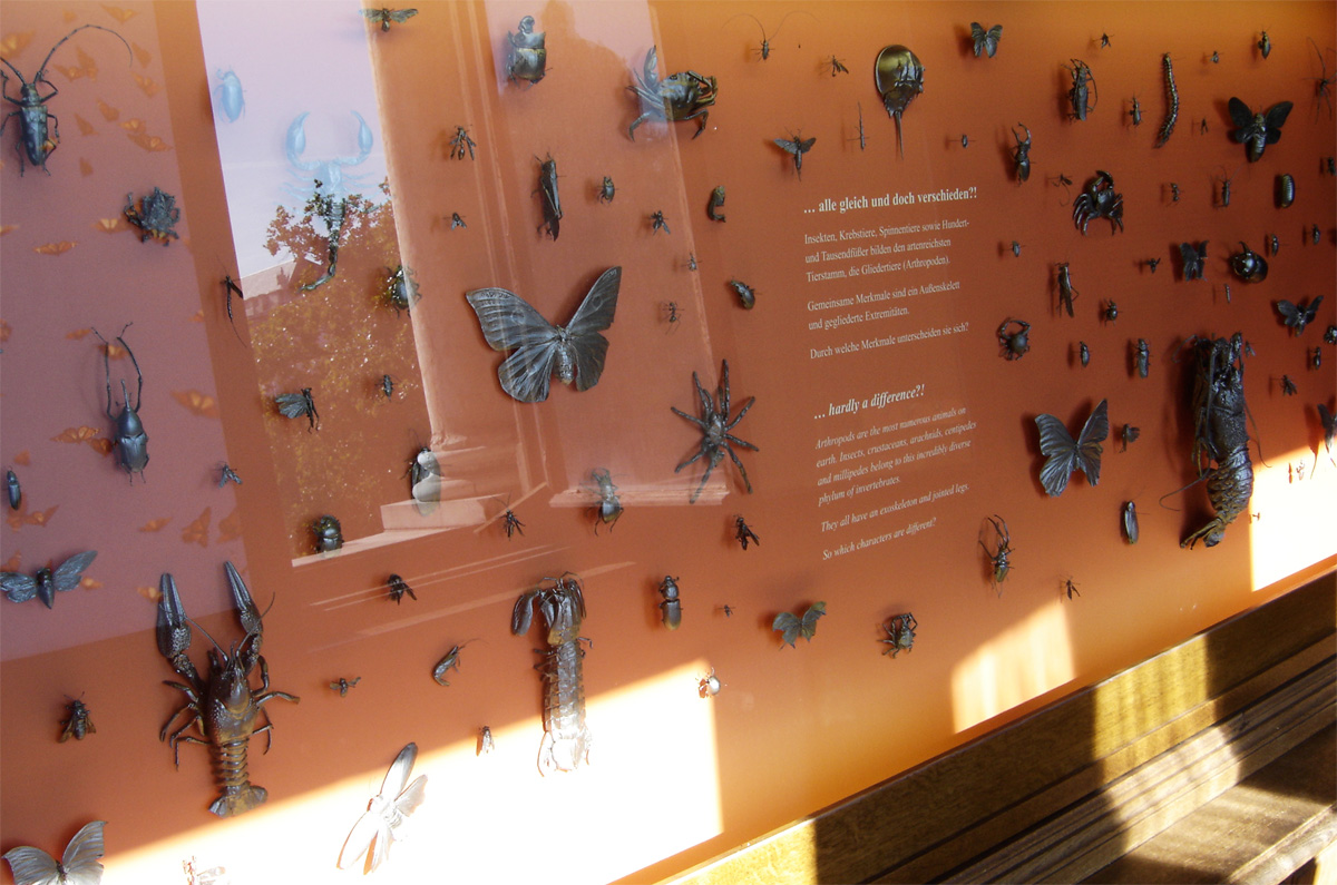 Galvanoplastic collection of Natural history museum of Wien